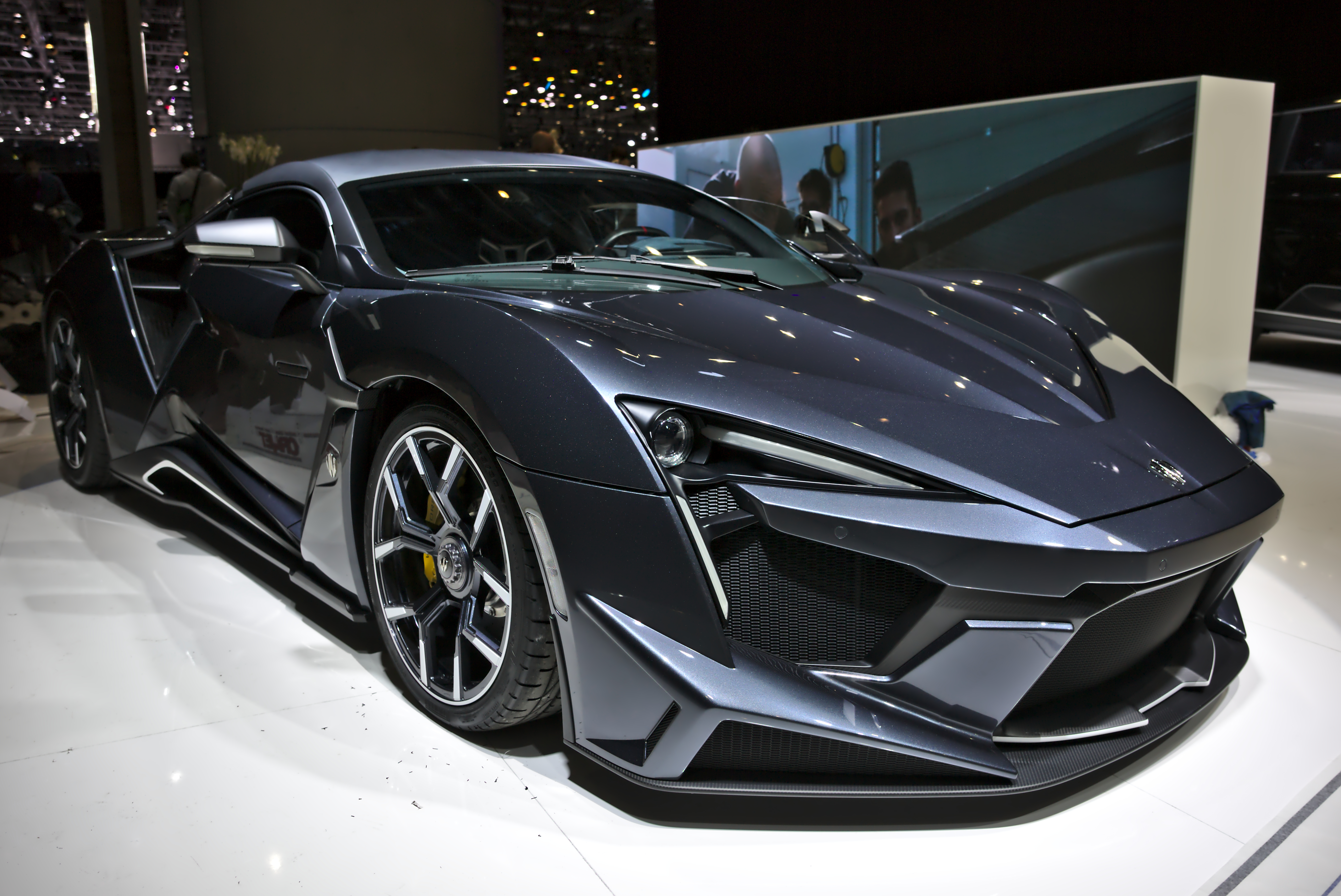 Fenyr Supersport at Geneva Motorshow 2018